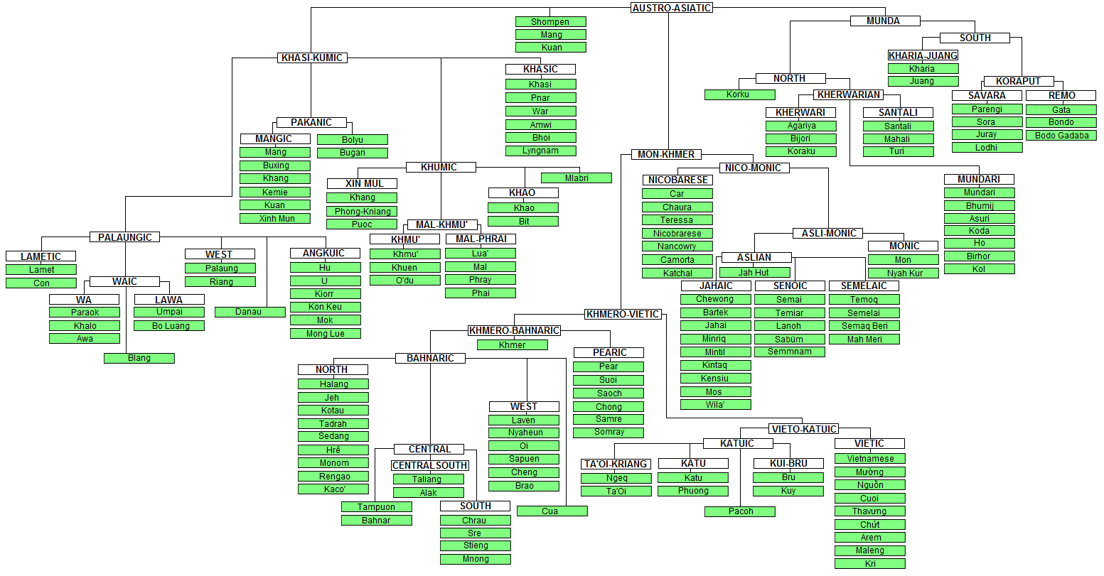 Phylogenic tree of the Austroasian Language Macro-Family